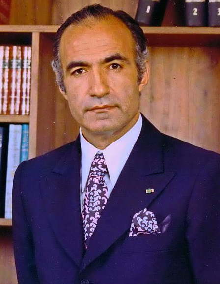 Gholam-Reza Kianpour